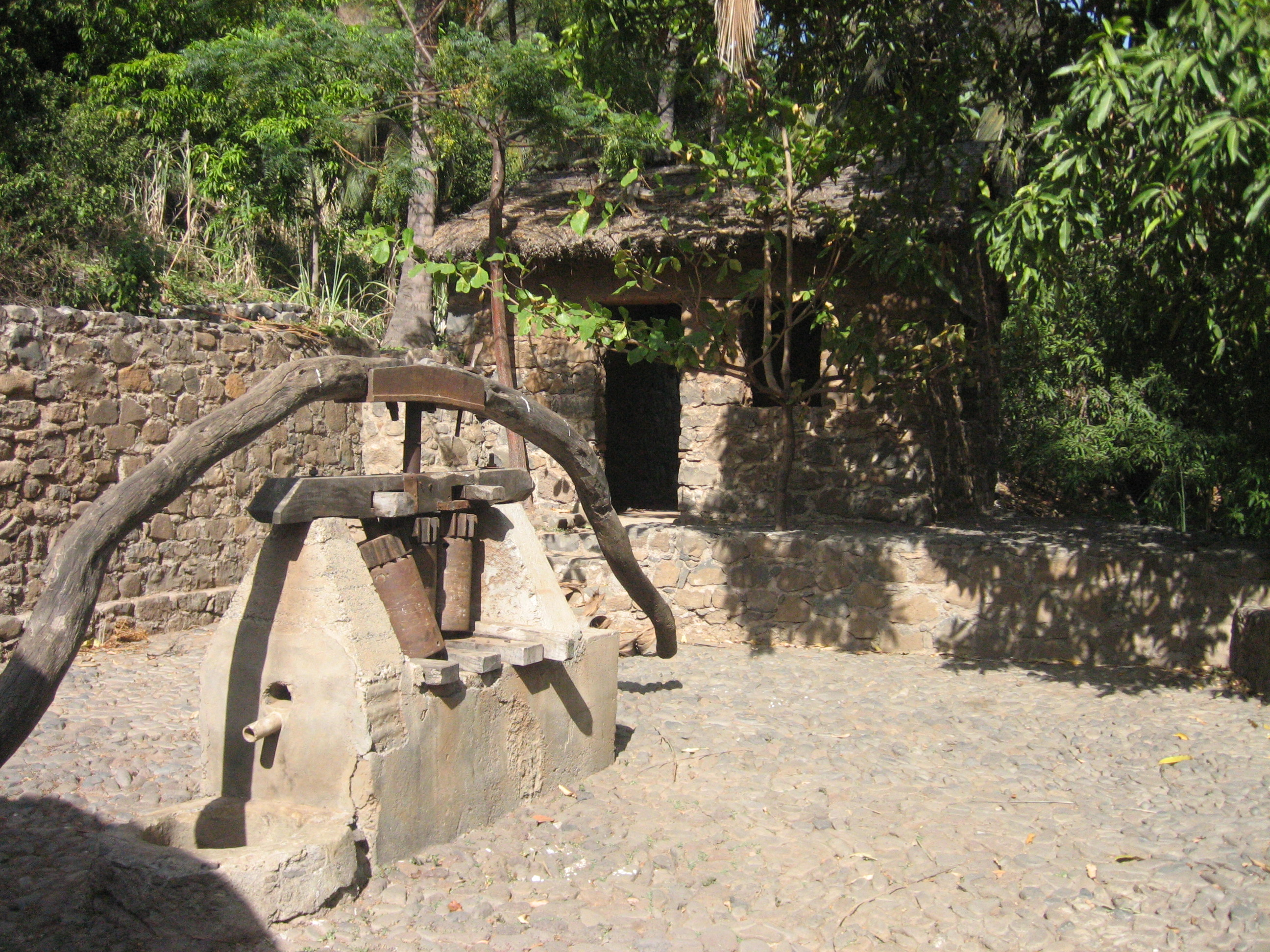 Old Grogue distillery in the city of Cidade Velha on Santiago, Cape Verde